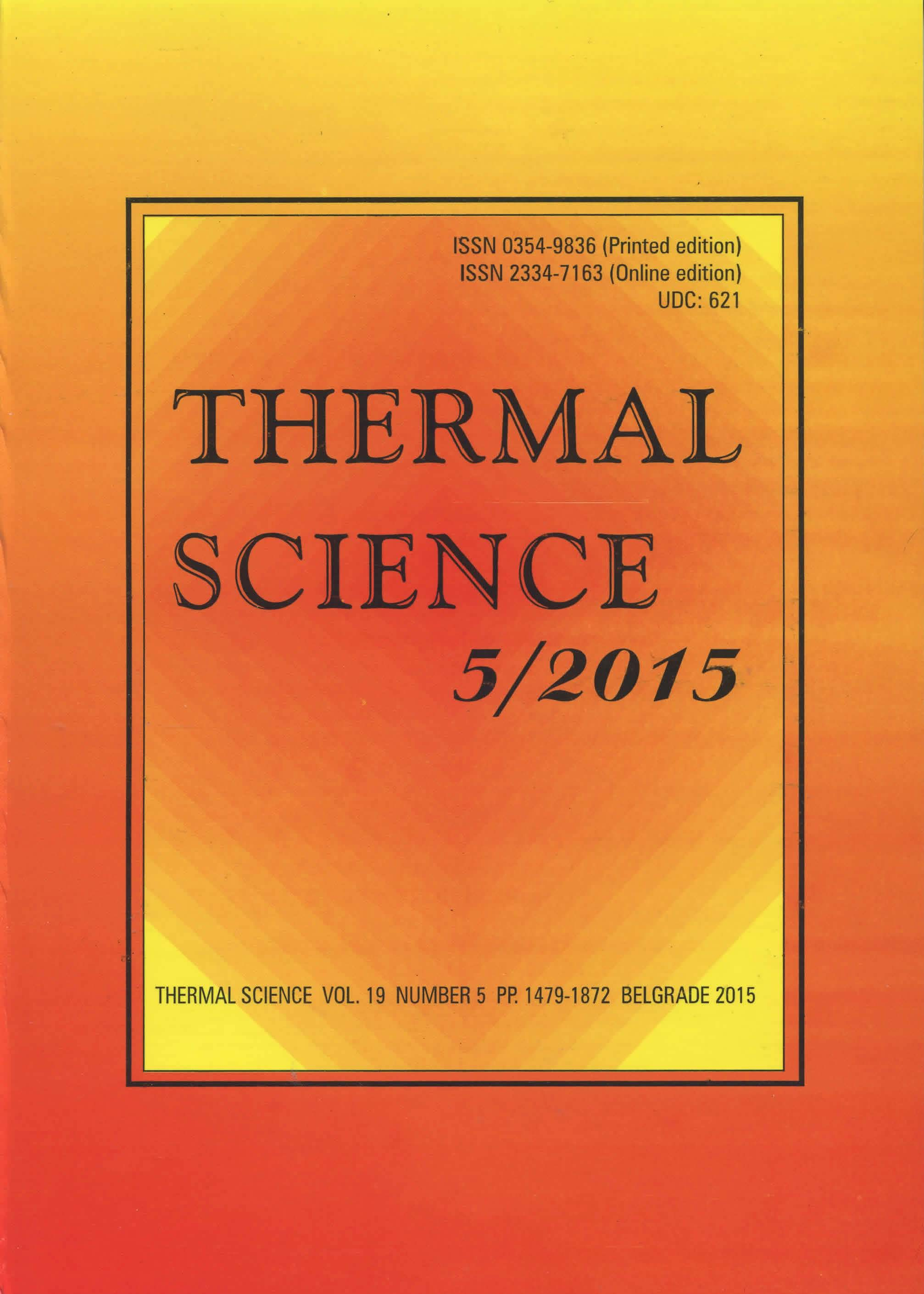 Cover of scientific journal Thermal Science from Vinča Institute of Nuclear Sciences, University of Belgrade, Serbia